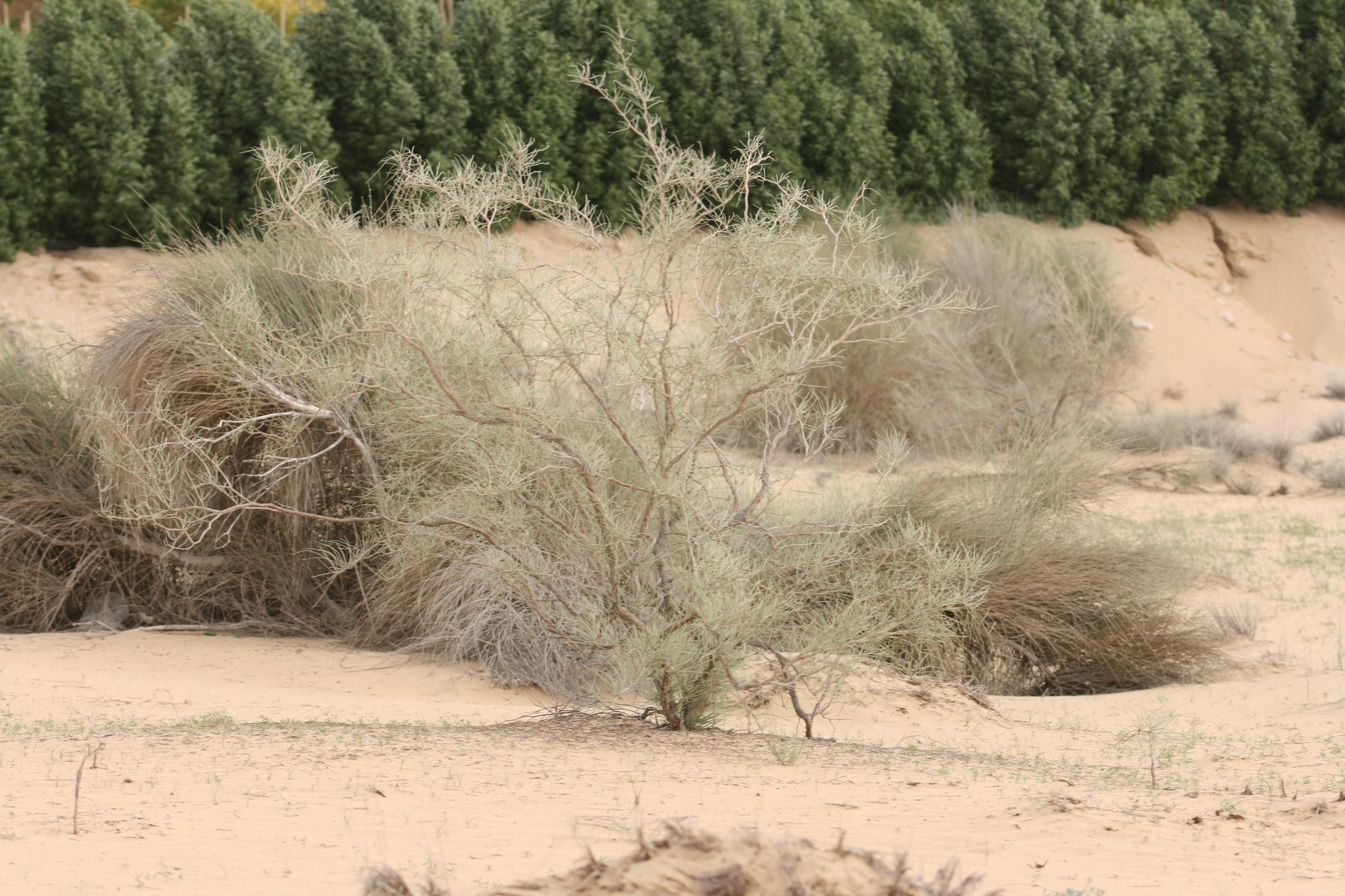 Desert plants of the UAE, Calligonum crinitum in flower